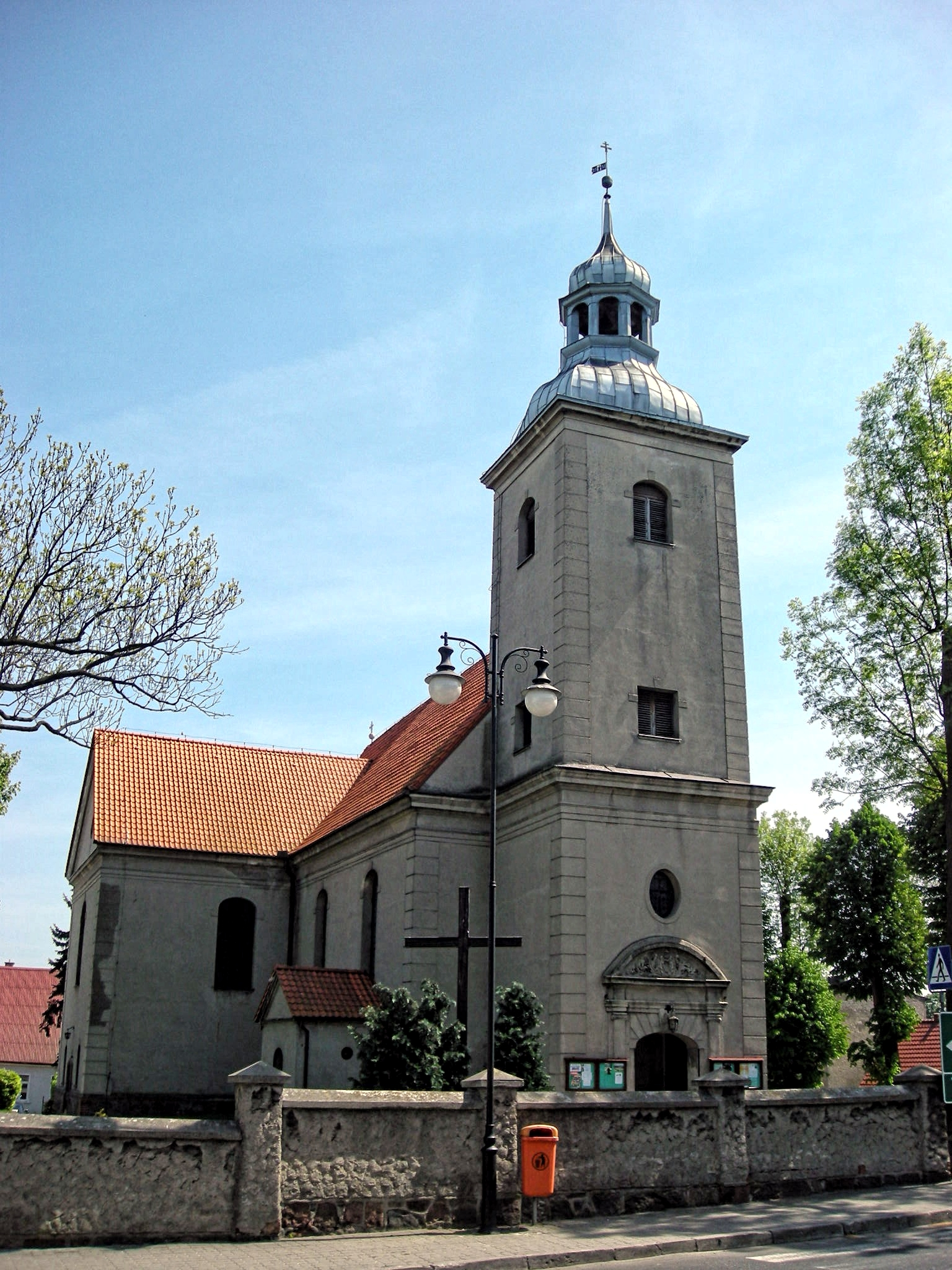 Saints Peter and Paul Collegate church in Kamień Krajeński, Poland.